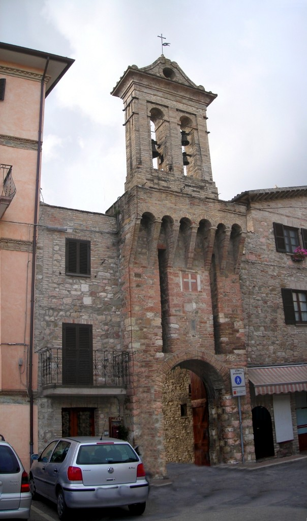 Gate of the castle of Tordandrea, Assisi, Perugia, Umbria, Italy